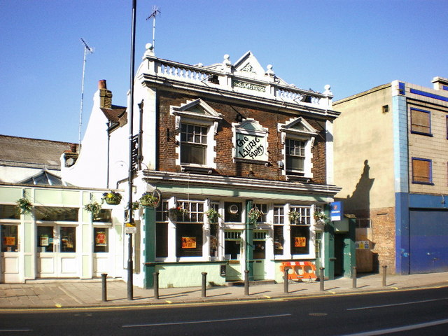 The Laurie Arms, Shepherds Bush Road